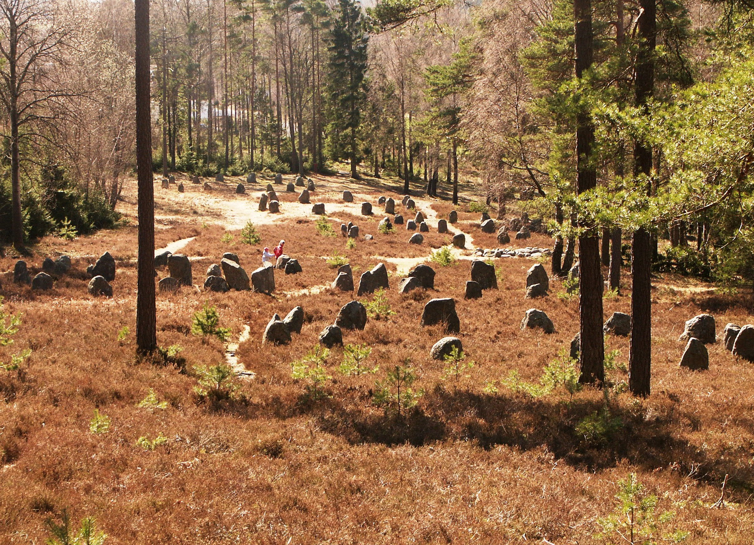 Stone circles at Hunn, Fredrikstad